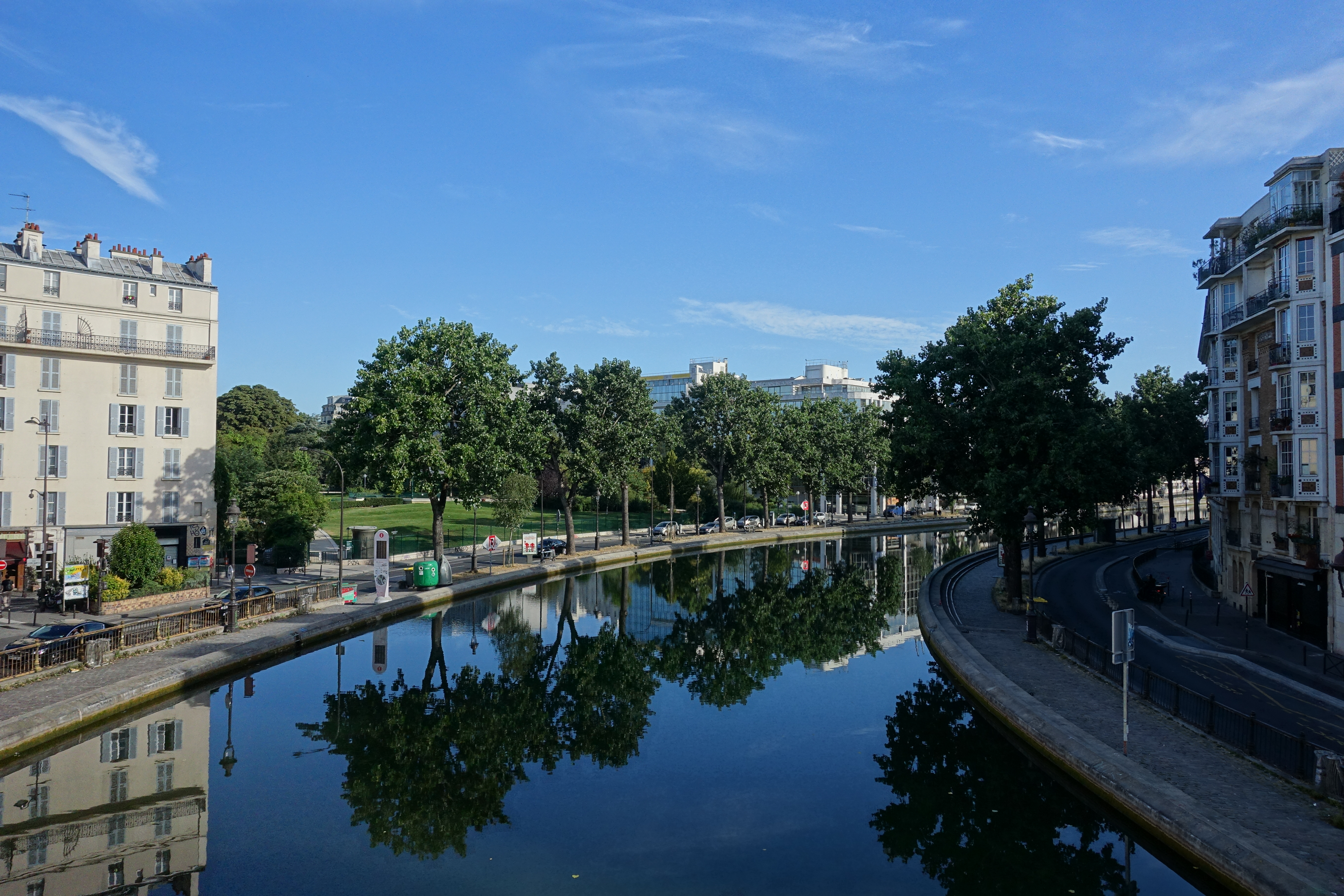 Canal Saint-Martin @ Paris